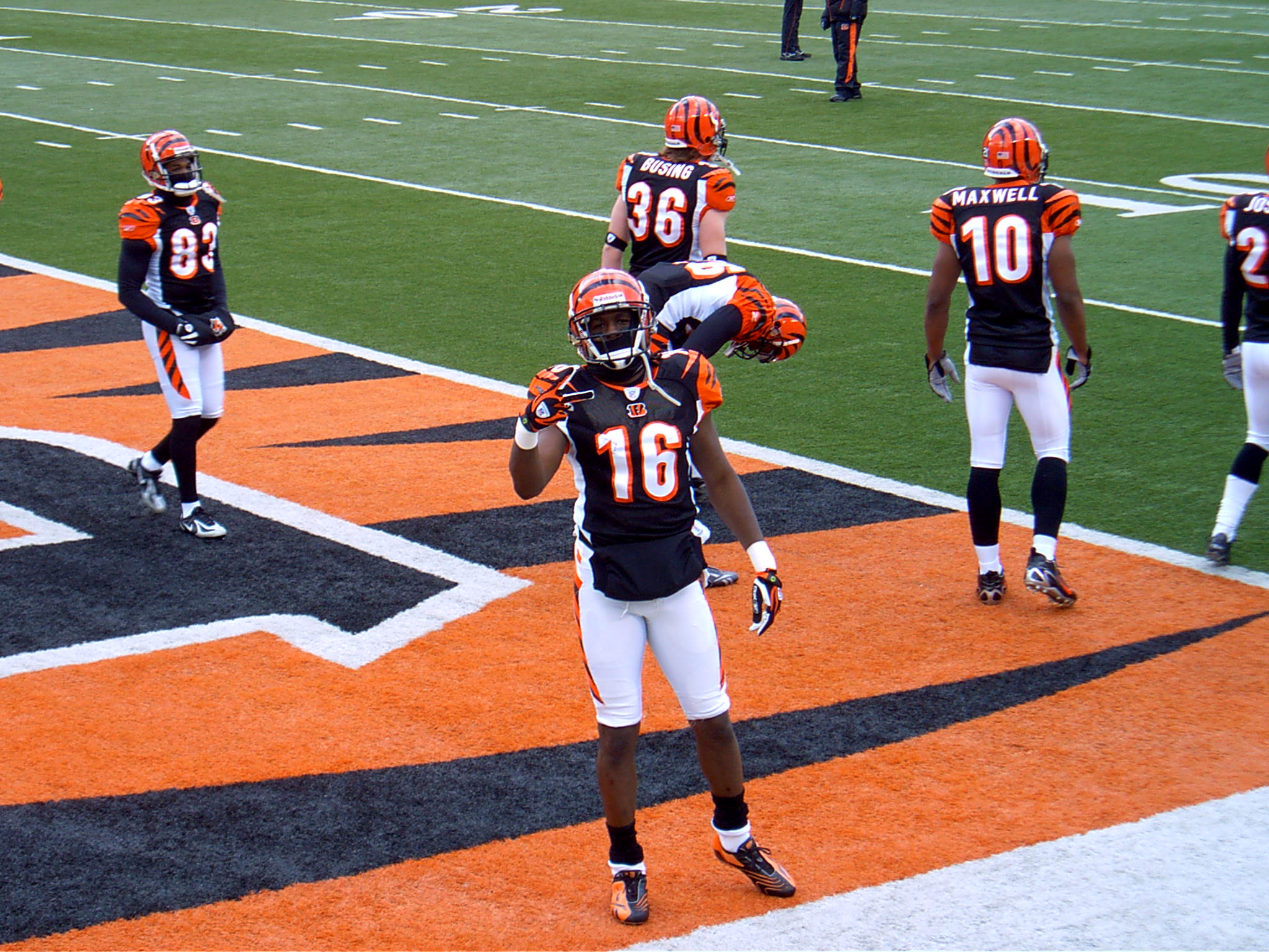 Glenn Holt poses during pregame warmups on Dec 23, 2007 in which the Cincinnati Bengals played the Cleveland Browns